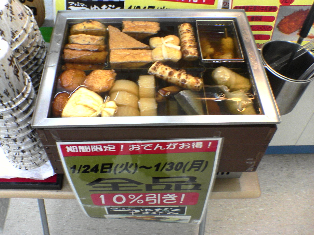 own picture (mobile phone camera)